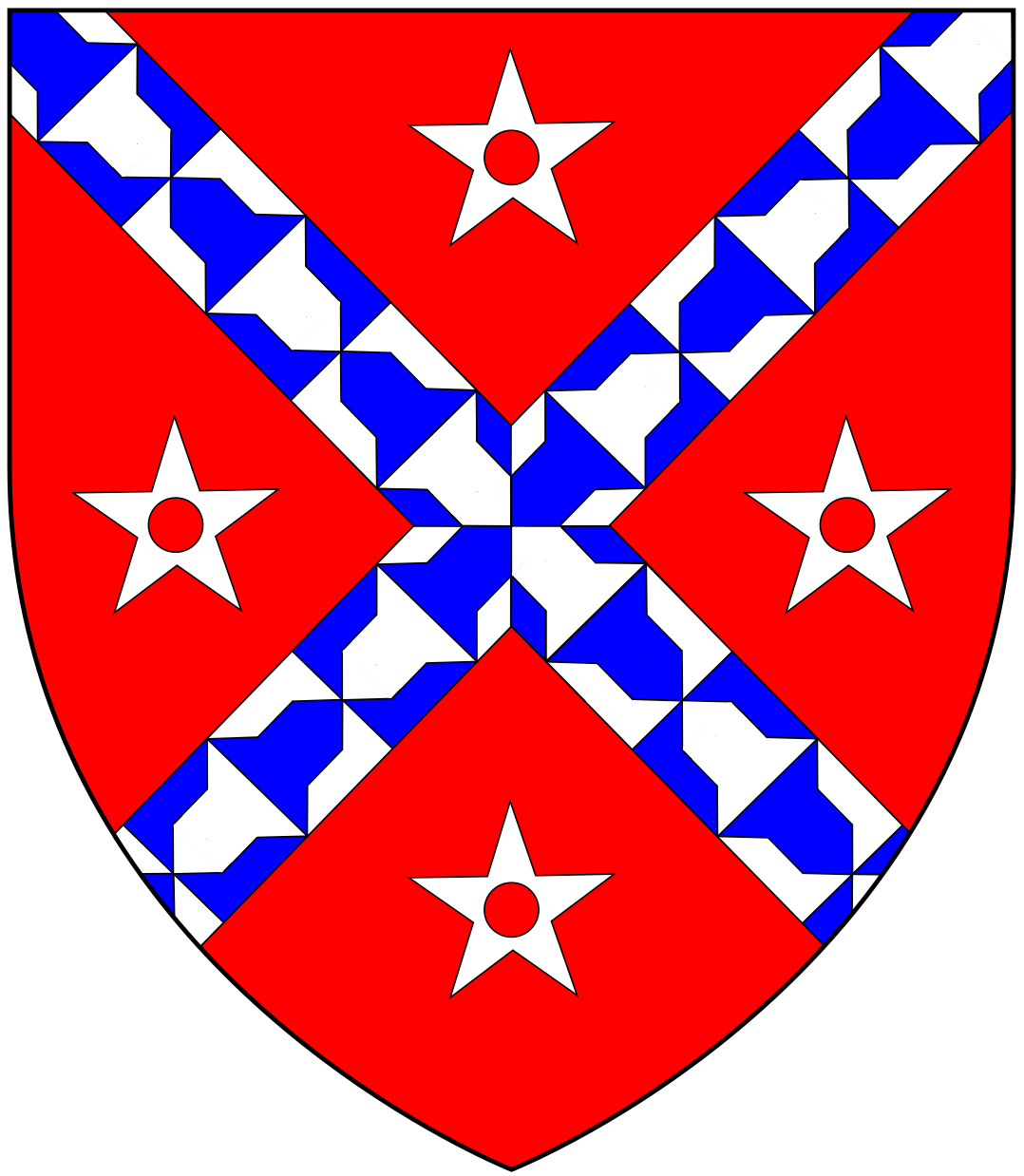 Arms of Hill of Houndston, Dorset: Gules, a saltire vair between four mullets pierced. Margaret Hill, a daughter of daughter of Robert Hill (d.1493) of Houndston, Yeovil, Somerset, was the wife of Sir Hugh Luttrell (d.1521) of Dunster Castle. These arms of Hill are visible in various places in the Castle and in Dunster Church. Source: Maxwell Lyte, Sir Henry, A History of Dunster and of the Families of Mohun and Luttrell, 2 Parts, London, 1909: Part I, London, 1909 Part 2, London, 1909 (Appendices)). Also the arms of Hill of Hill's Court, Exeter, Devon, per Pole, Sir William (d.1635), Collections Towards a Description of the County of Devon, Sir John-William de la Pole (ed.), London, 1791, p.487, which does not state the mullets to be pierced.